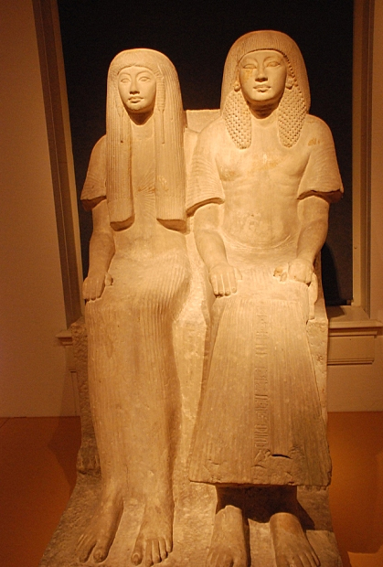 Statue of the prominent late 18th dynasty official Maya and his wife Merit at the Museum voor Oudheden in Leiden, Holland. Maya helped supervise the burial of Tutankhamun and later restored the royal tomb of Thutmose IV during Year 8 of Horemheb's reign.